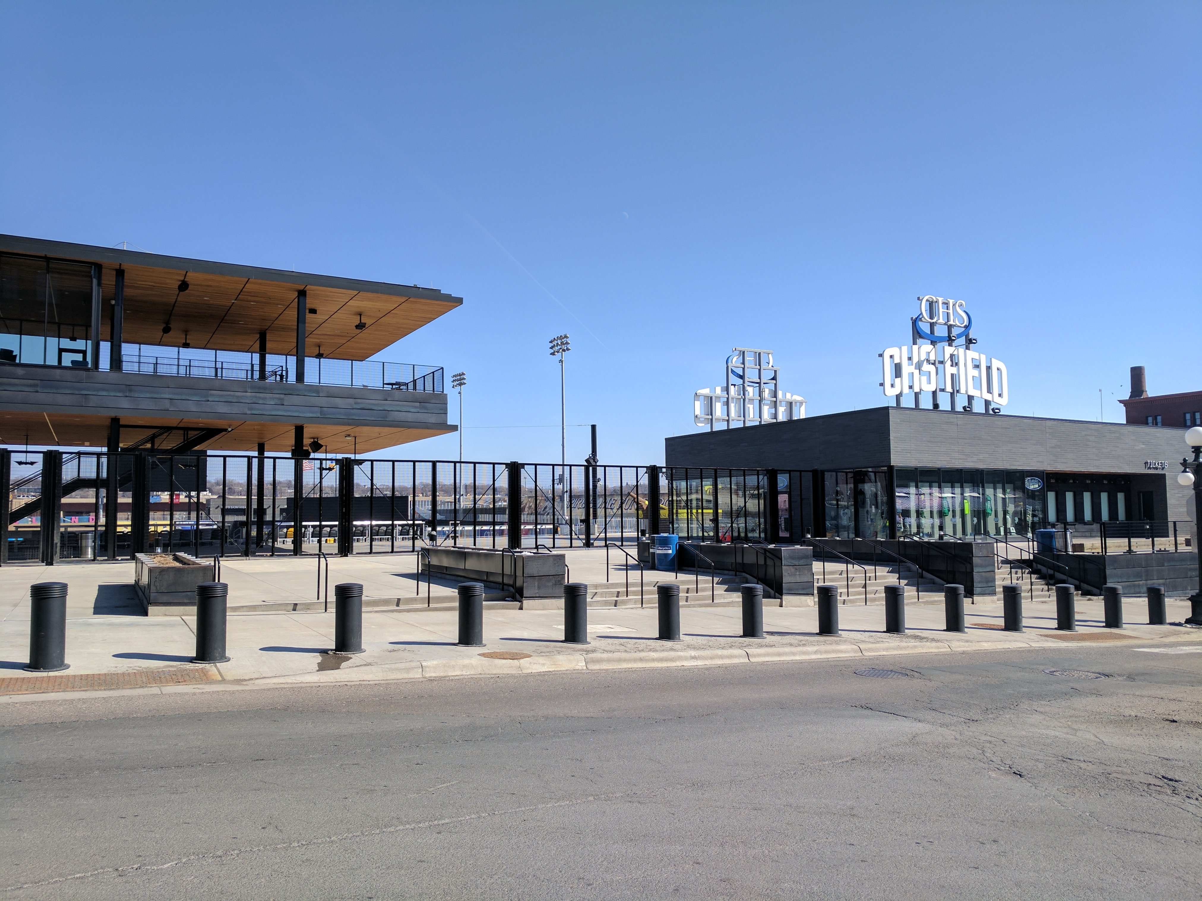 Image of the Exterior of the Saint Paul Saints CHS Field in Saint Paul, Minnesota